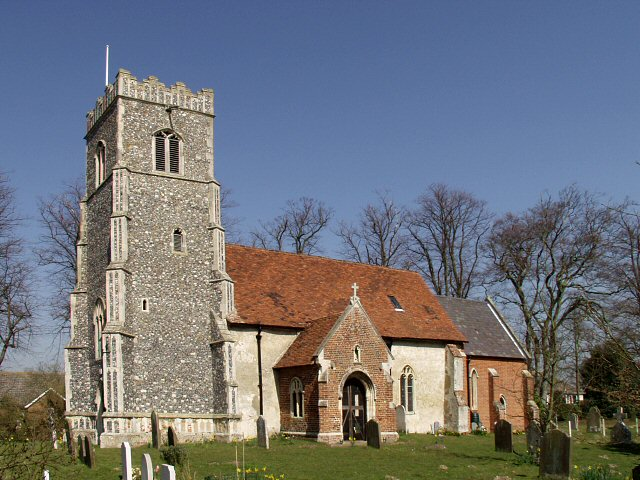 The Church of St Edmund in Bromeswell, Suffolk, England. The medieval church is a Grade I listed building.